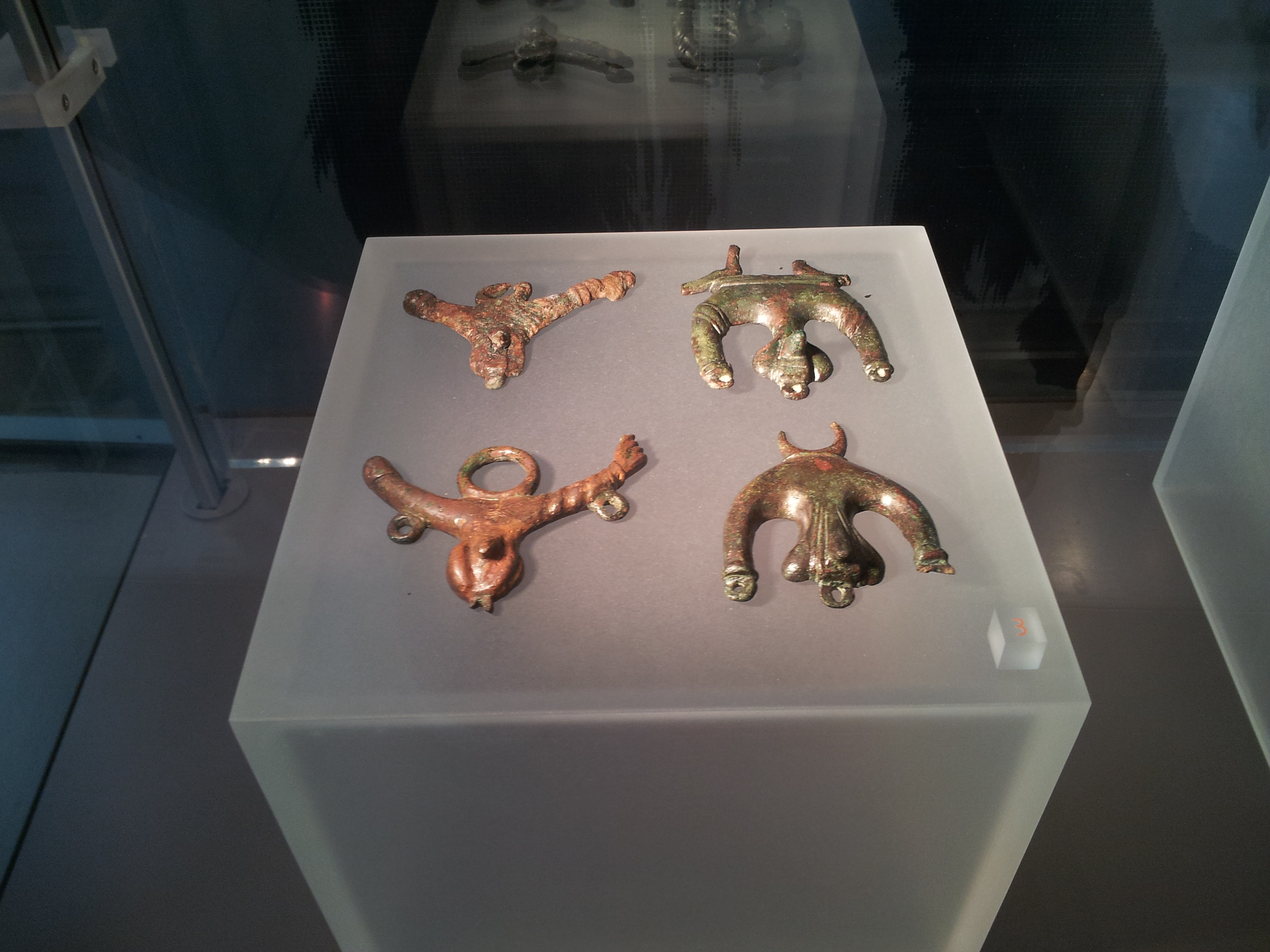 LVR-RömerMuseum Xanten - Exhibition